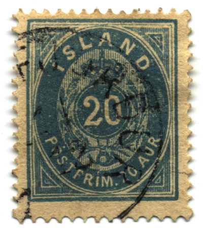 Scan of Iceland 20a stamp of 1882